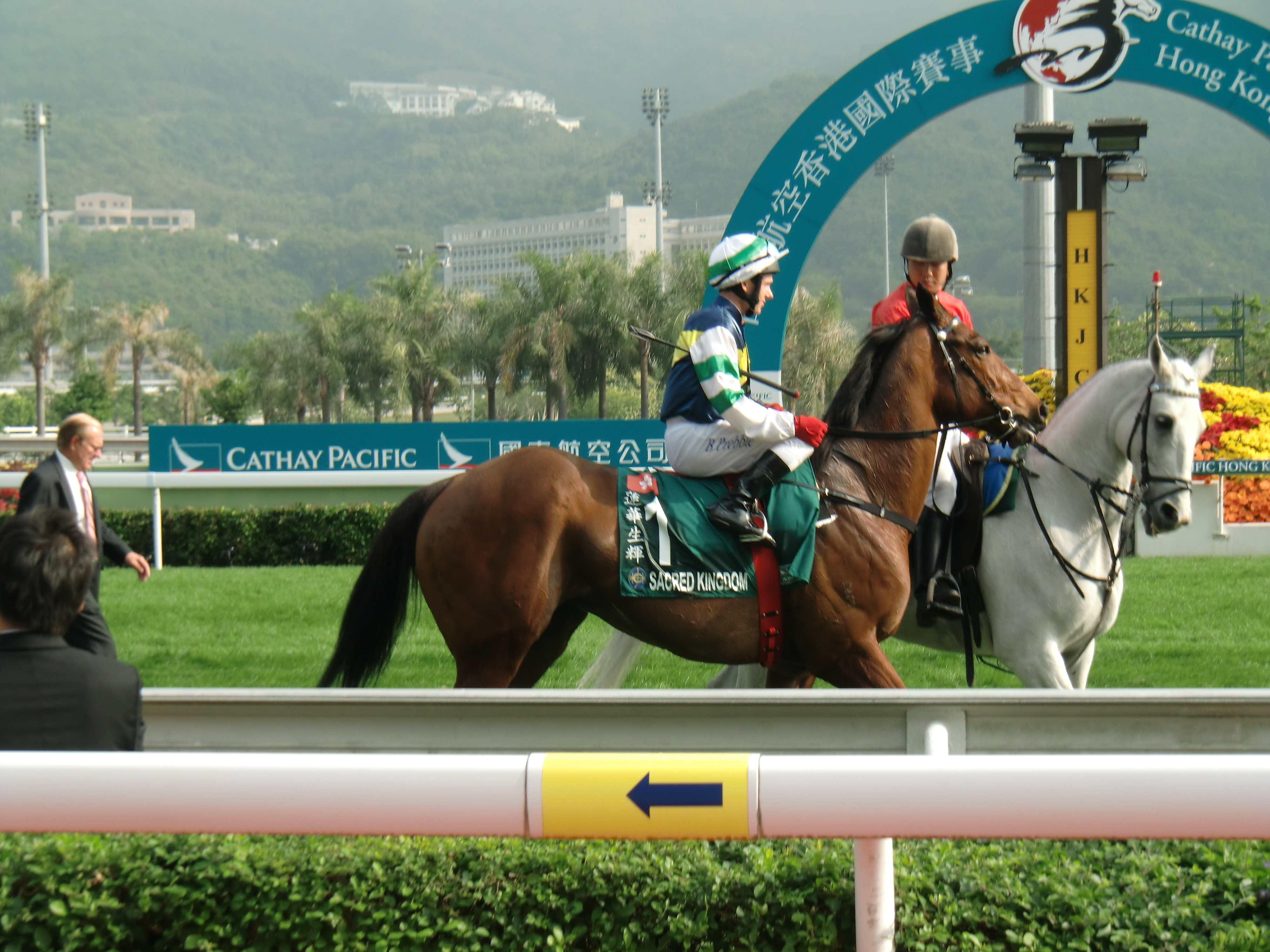 Sacred Kingdom a thoroughbred racehorse trained in Hong Kong. Ran on Hong Kong Sprint 2009 中文（香港）: 蓮華生輝出戰2009年香港短途錦標